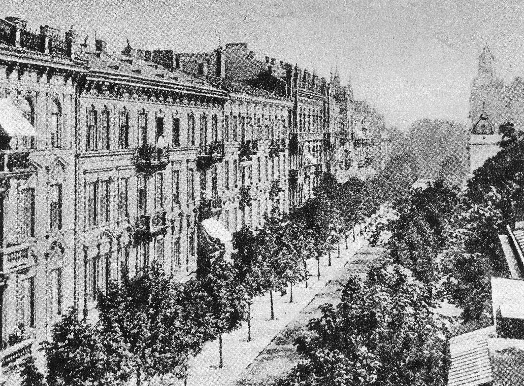 Szopen Street in Warsaw, view towards Ujazdowskie Avenues